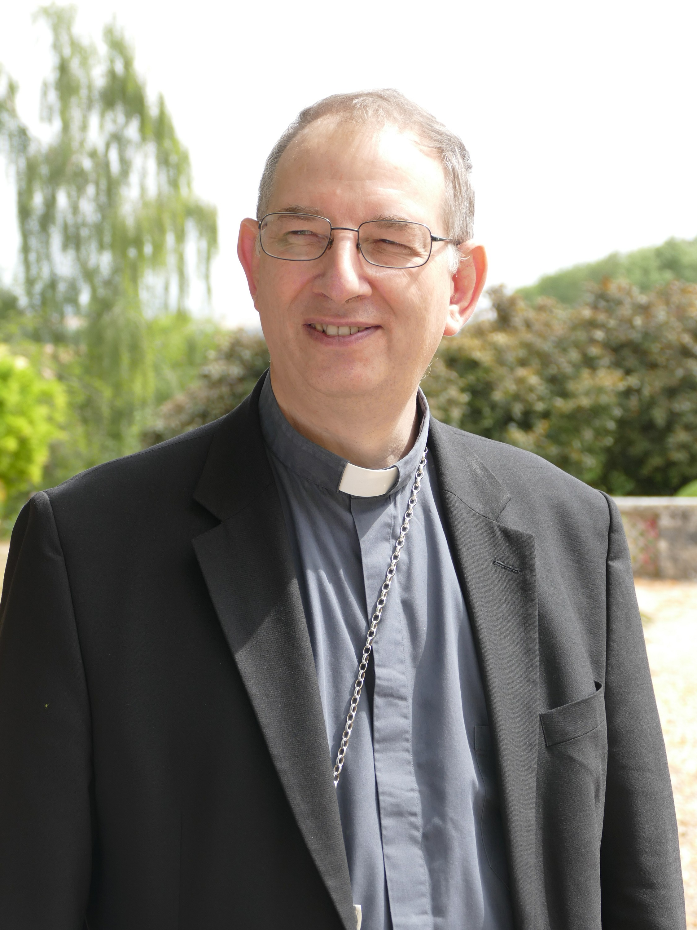 Mgr Bruno Feillet, auxiliary bishop of Reims in Saint-Thierry (Marne, Champagne-Ardenne, France).